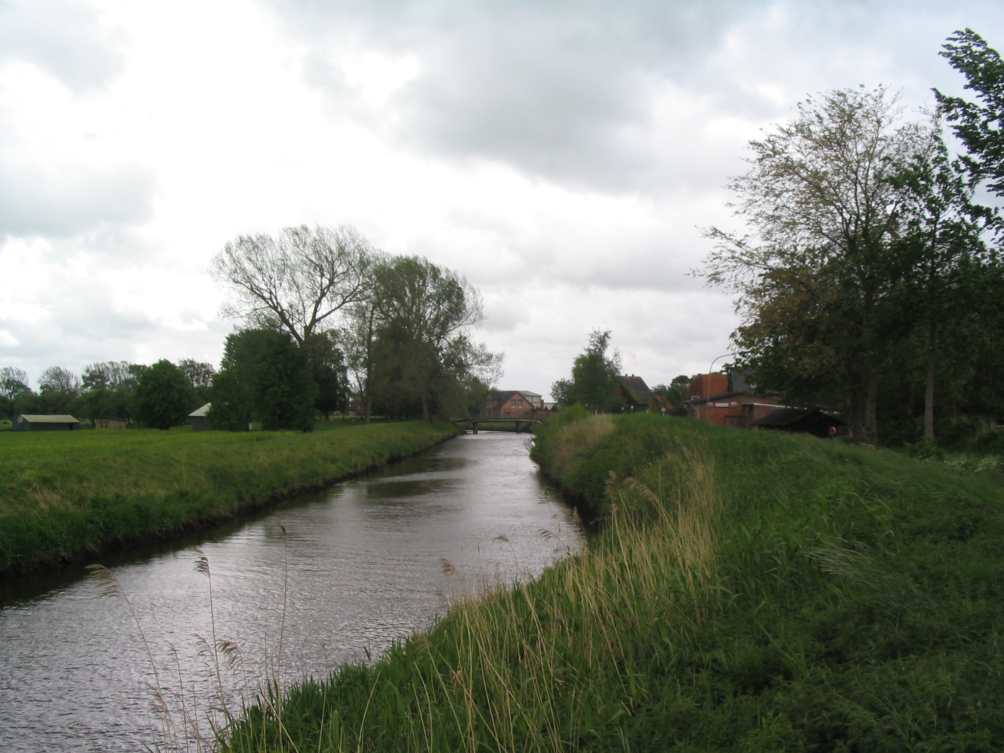 Bekau River flowing into (out of) the small Village Krummendiek